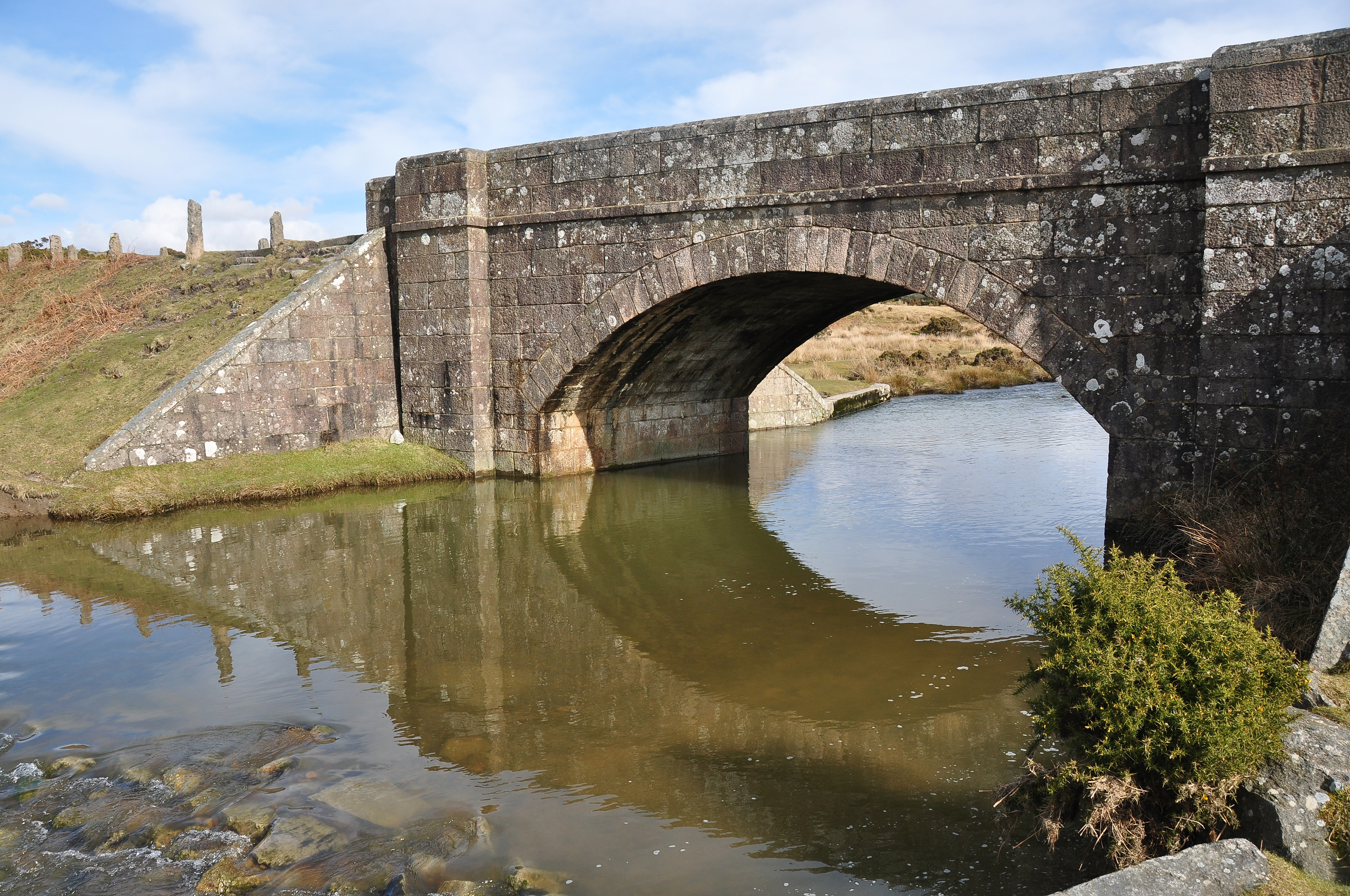 Cadover Bridge on the Southern edge of Dartmoor. The bridge is over the River Plym and is on the edge of the open moors.